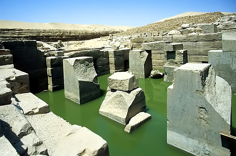 Osireion, view to north-west, Temple of Seti I, Abydos, Egypt